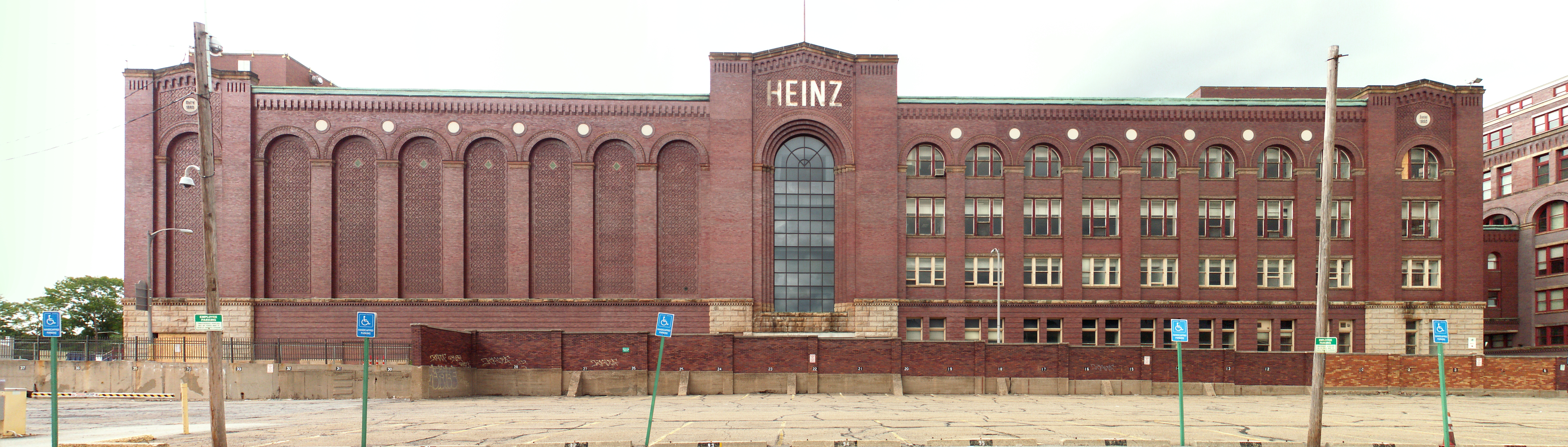 Heinz Factory Buildings, North Side, Pittsburgh